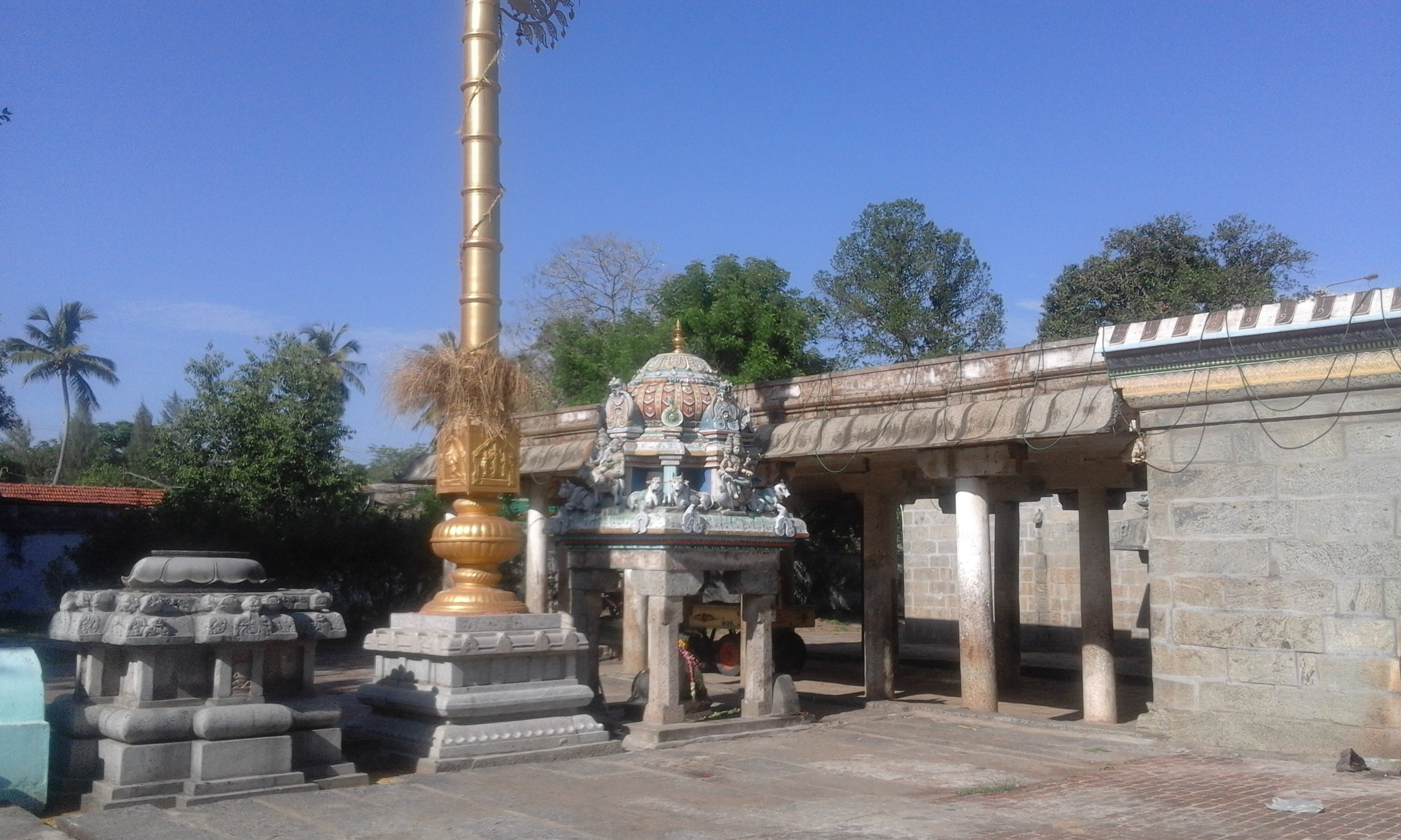 Vyakrapatheeswara temple, Sithalingamadam